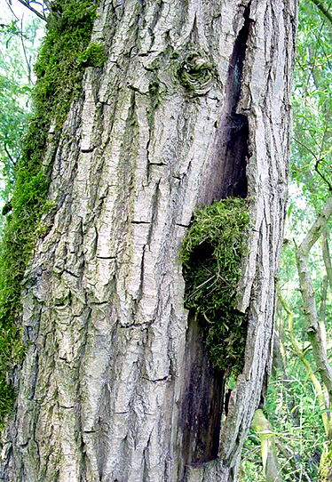 Decaying tree with nest of bird Lieu : Nord de la France.